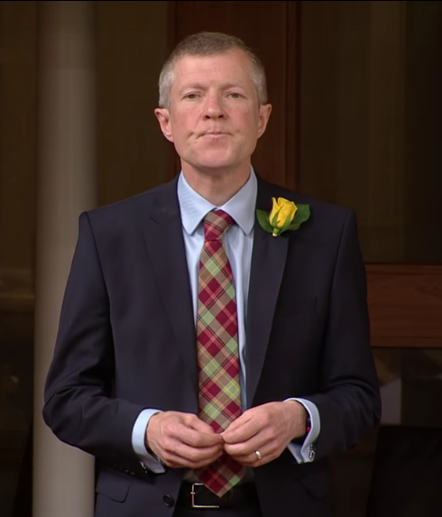 William Cowan Rennie, Member of the Scottish Parliament for North East Fife, waits to take the oath following the 2016 election.